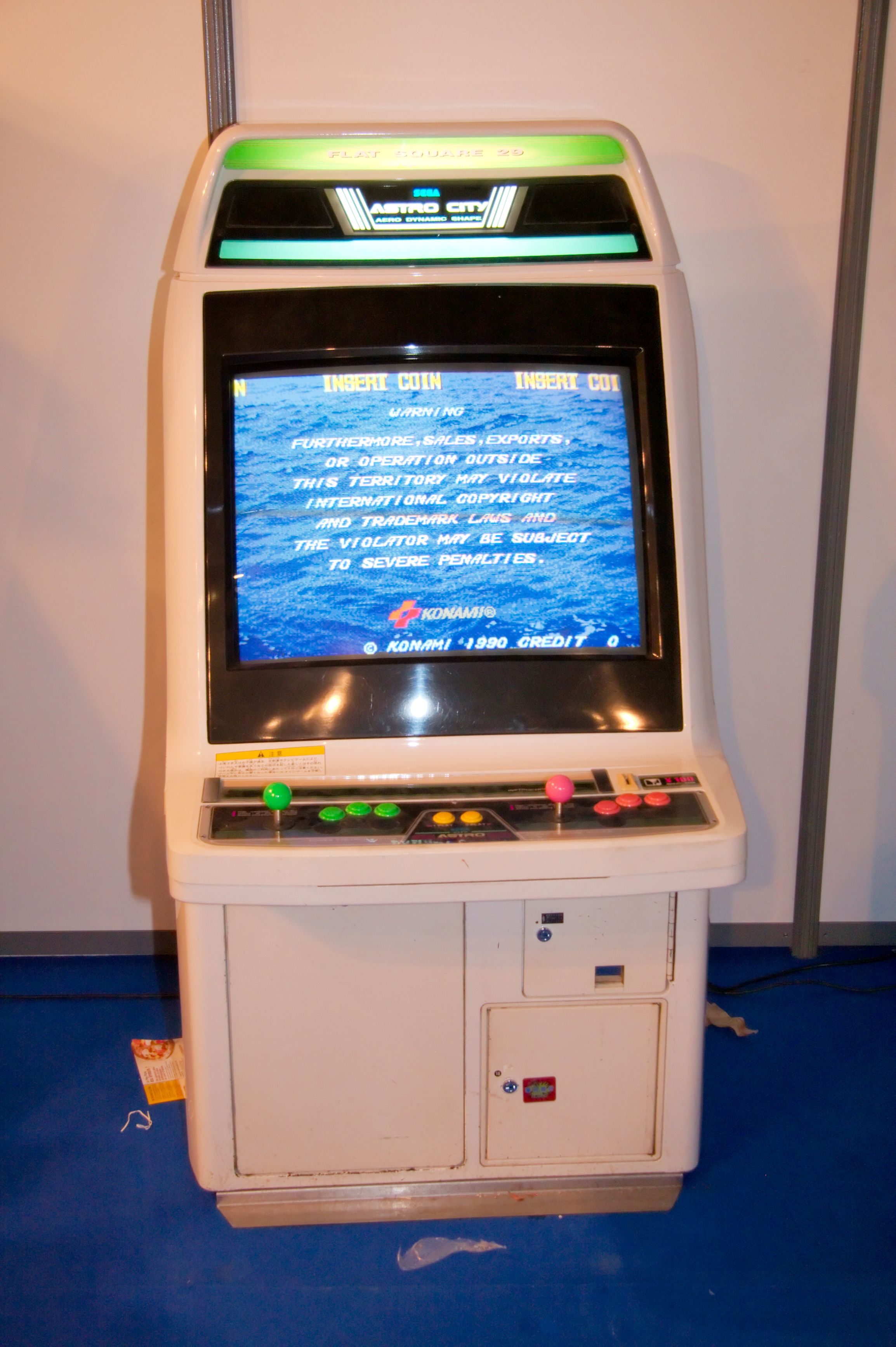 Festival du jeu vidéo 2008 (video game festival) (Paris, France).